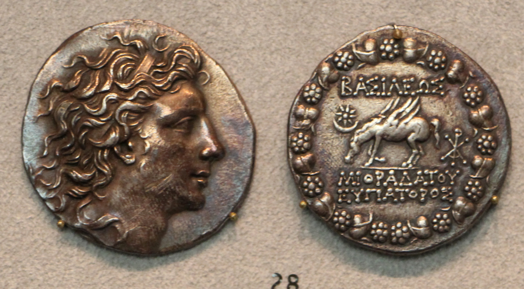 Ancient Greek coins in the Altes Museum Berlin